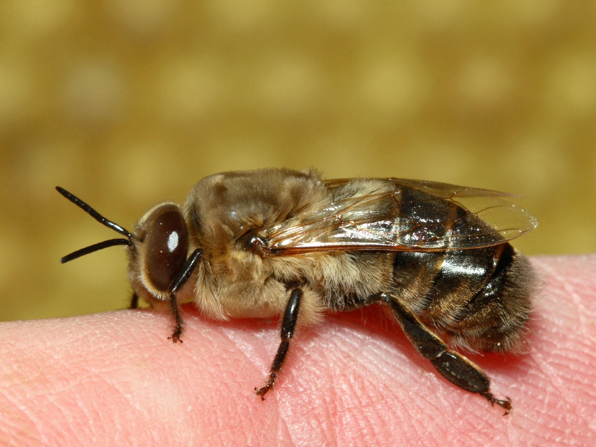 Drone (male honeybee)